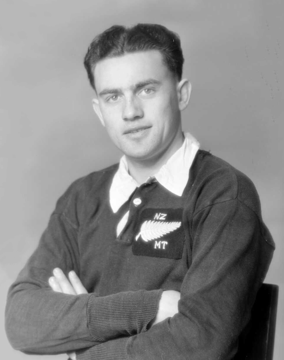 Photograph of rugby player Keith Davis, taken by Crown Studio Ltd of Wellington.